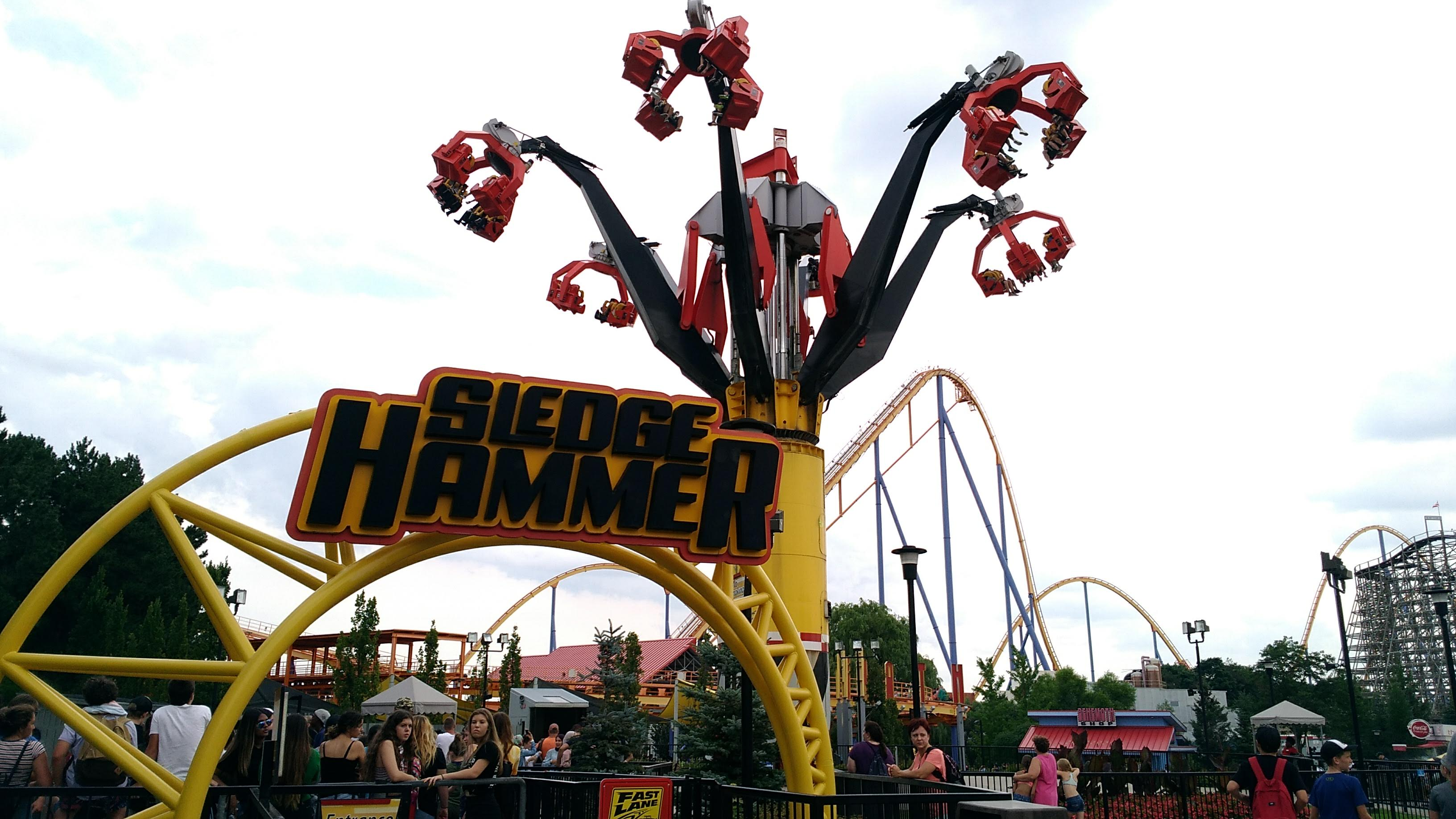 Sledge Hammer is a HUSS Giant Jumper attraction at Canada's Wonderland. It's the only ride of its kind in operation around the world. And yeah, it breaks down a lot. Not today though!